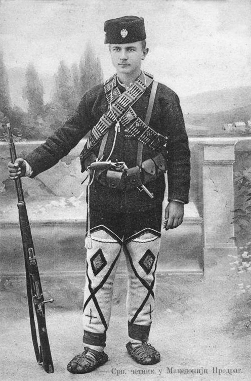 Chetnik Predrag, active in Macedonia